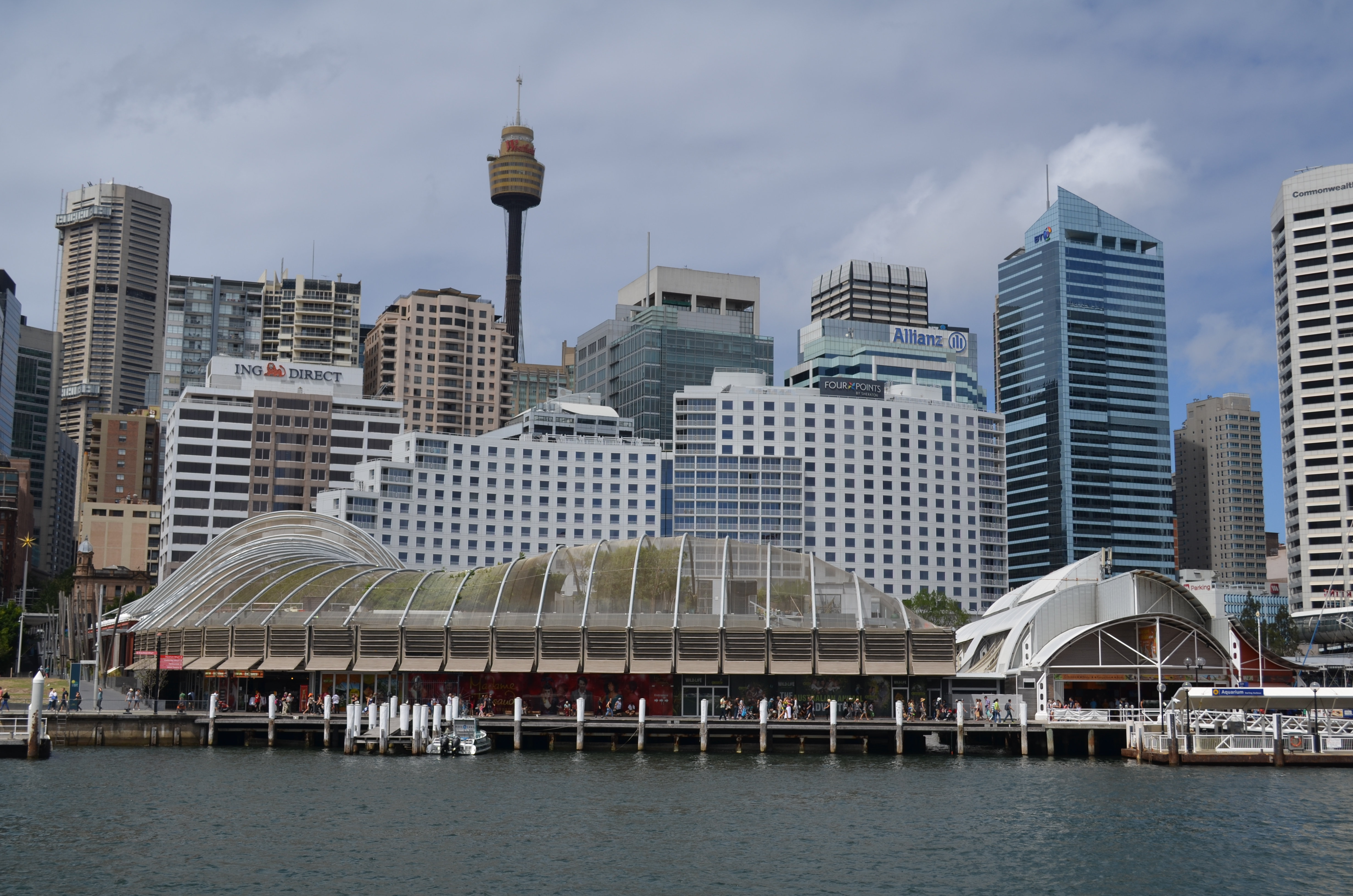 The Wild Life Sydney building in Darling Harbour, Sydney. The Sydney CBD is in the background